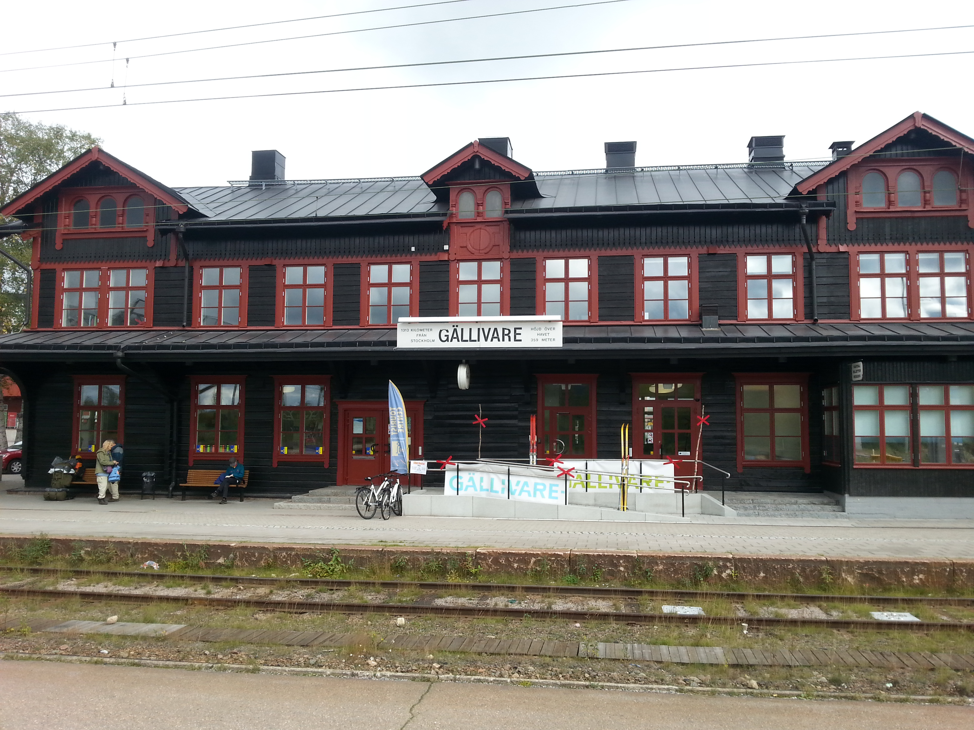 Gällivare järnvägsstation